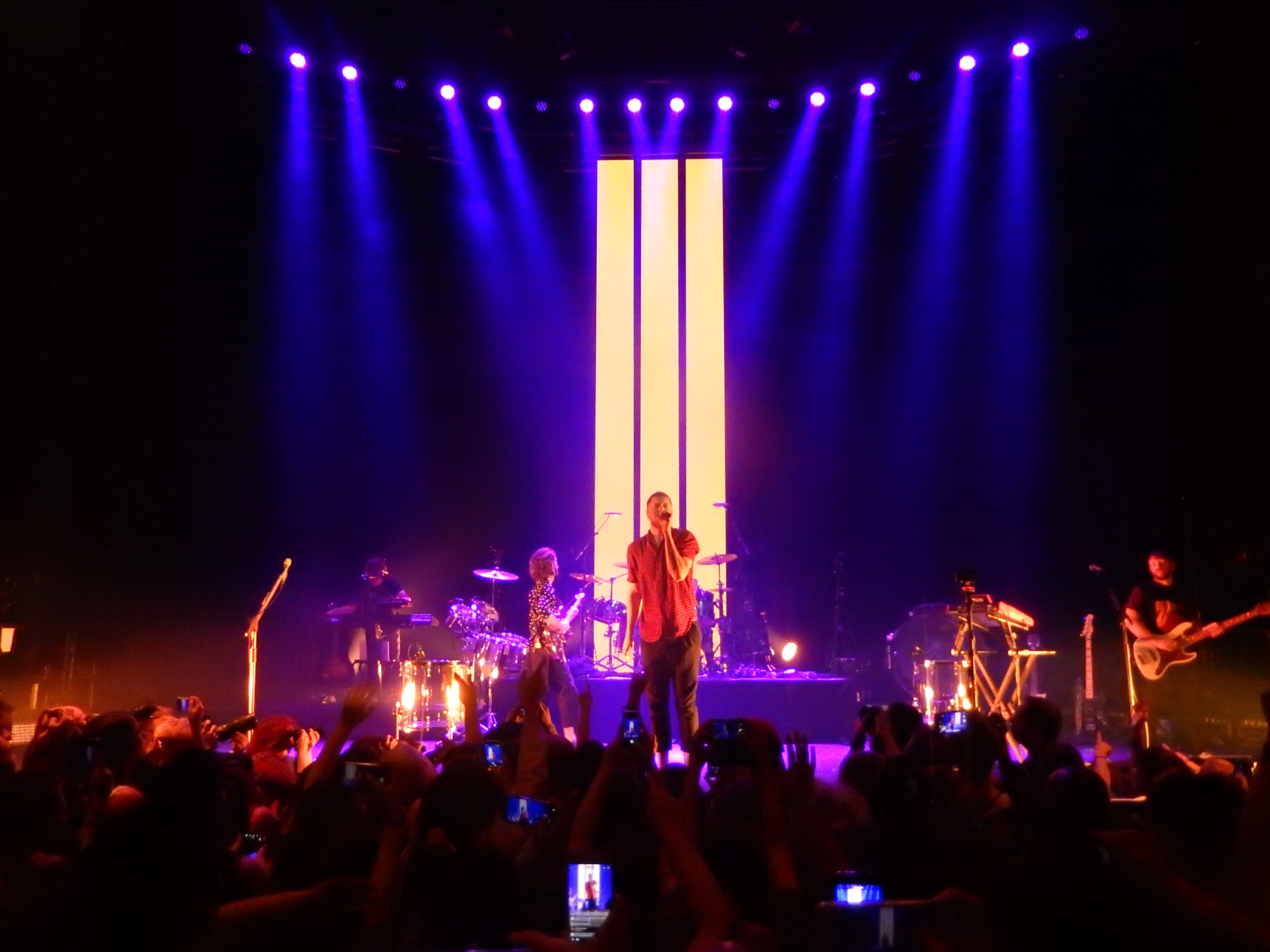 Imagine Dragons, Roundhouse, London